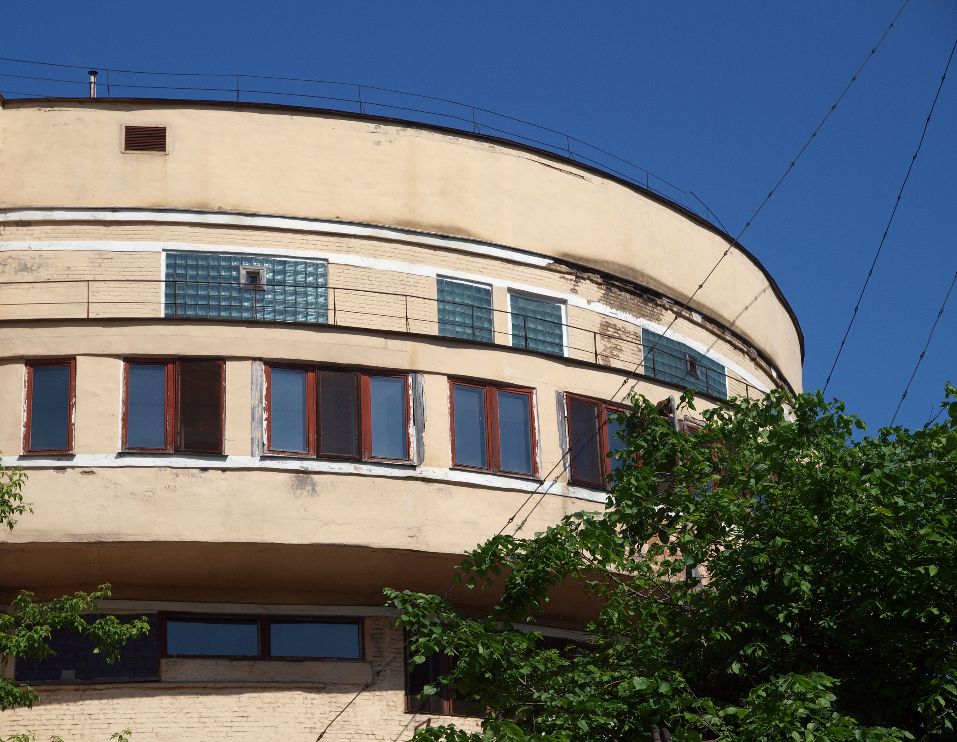 Roundhouse-type bakery in Moscow, 3rd Paveletsky Lane (operating).